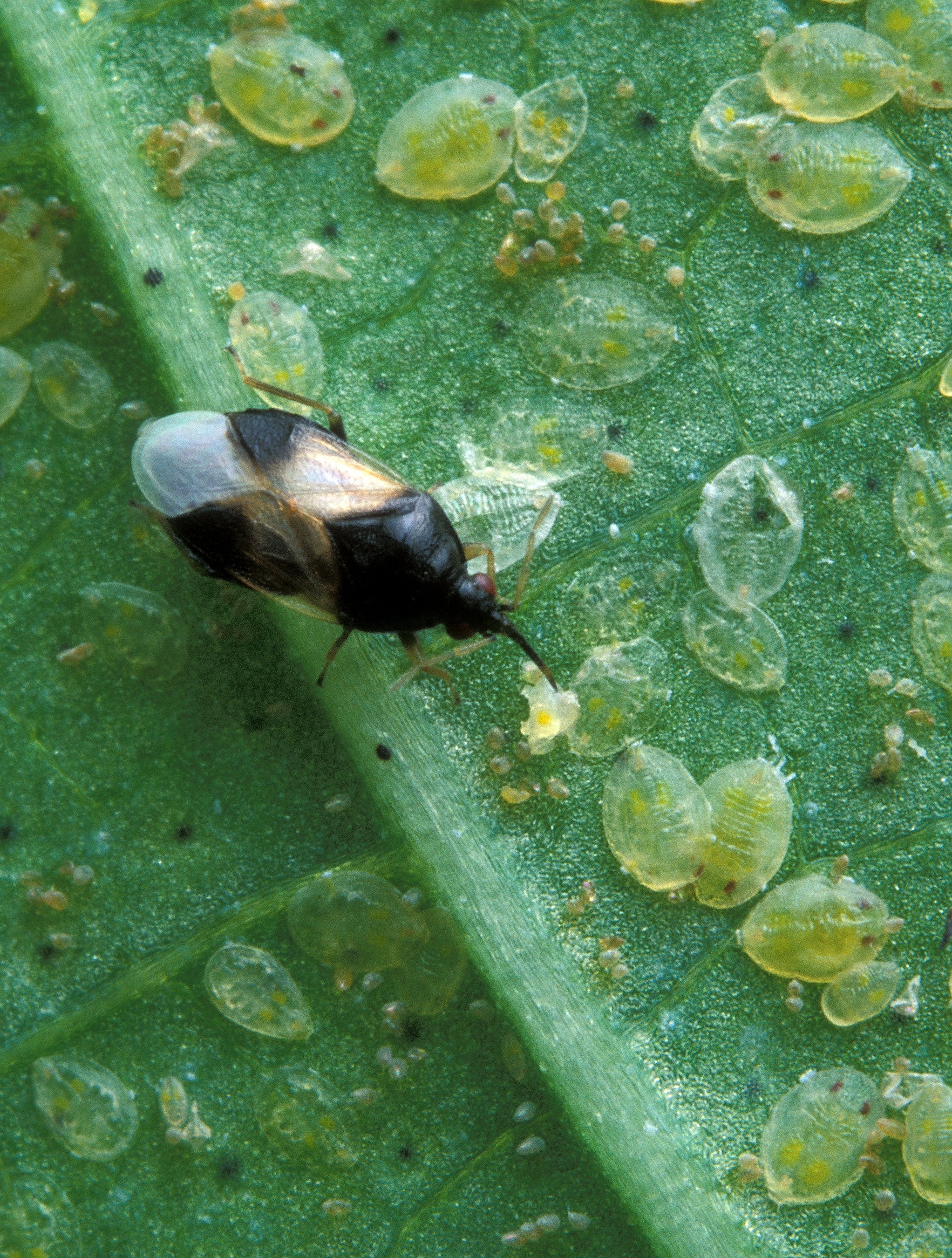 An adult pirate bug, Orius insidiosus (Rhynchota: Anthocoridae), feeding on white fly nymphs.